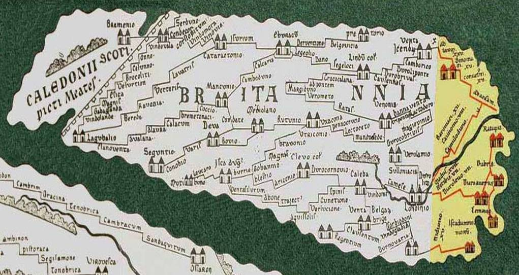 Part of the Tabula Peutingeriana, 1-4th century CE showing Britannia (present-day Great Britain). Facsimile edition by German cartographer Konrad Miller, 1887/1888